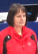 Before women's draw 5; 2010 Winter Olympics